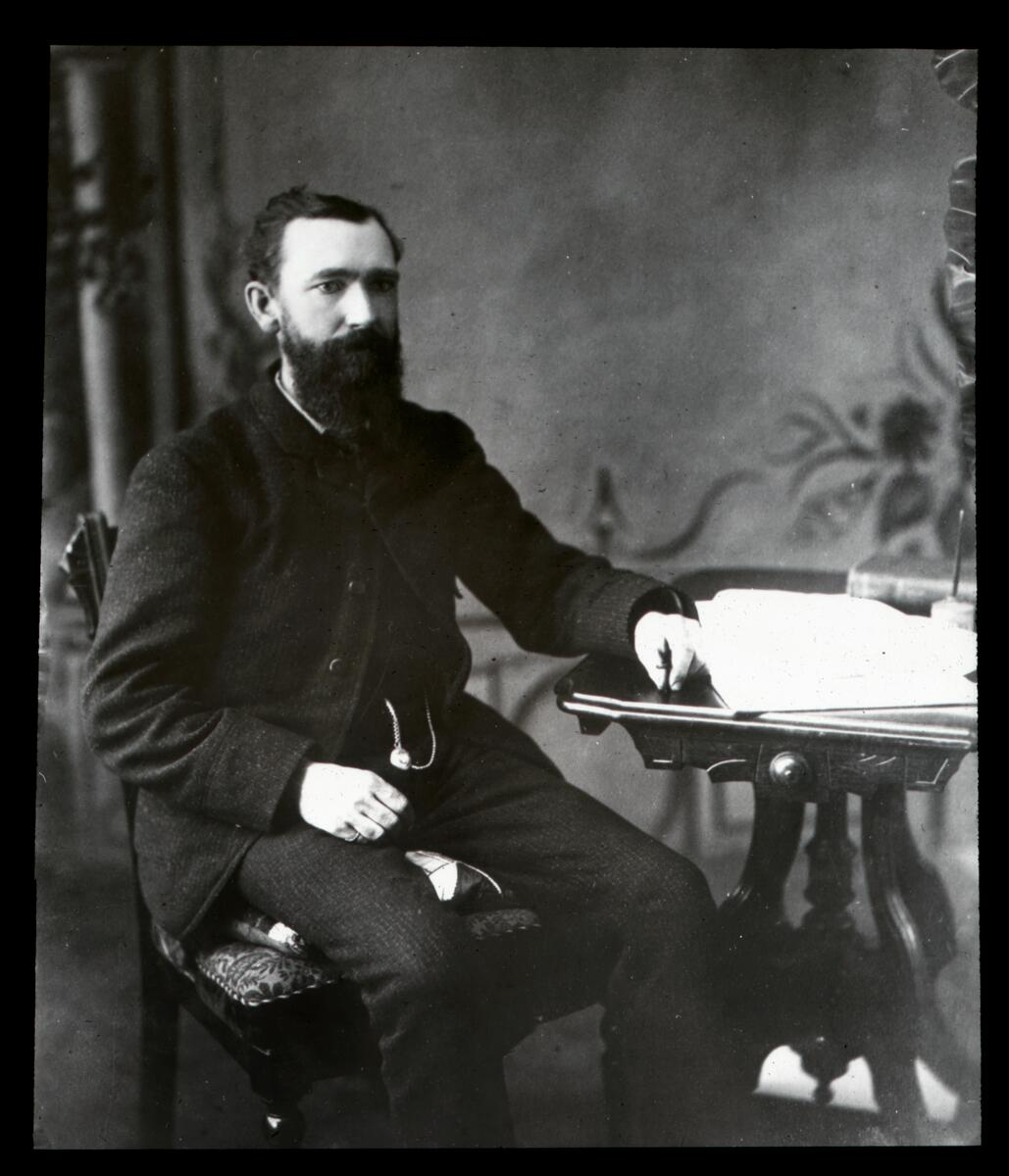 George Murdoch, circa 1866.